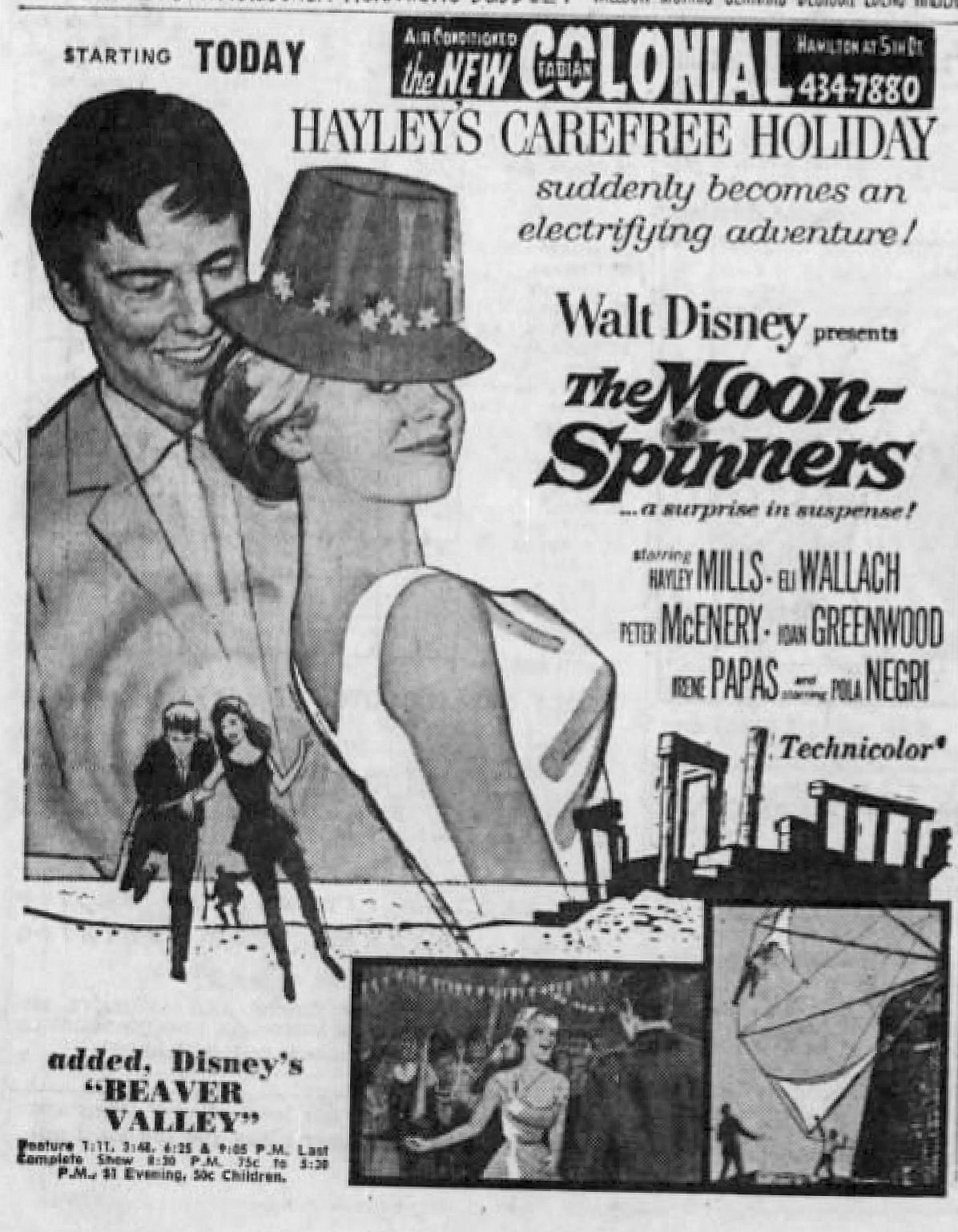 Towne Theater advertisement for the American film The Moon-Spinners (1964) - 17 Jul. 1964 Morning Call, Allentown PA